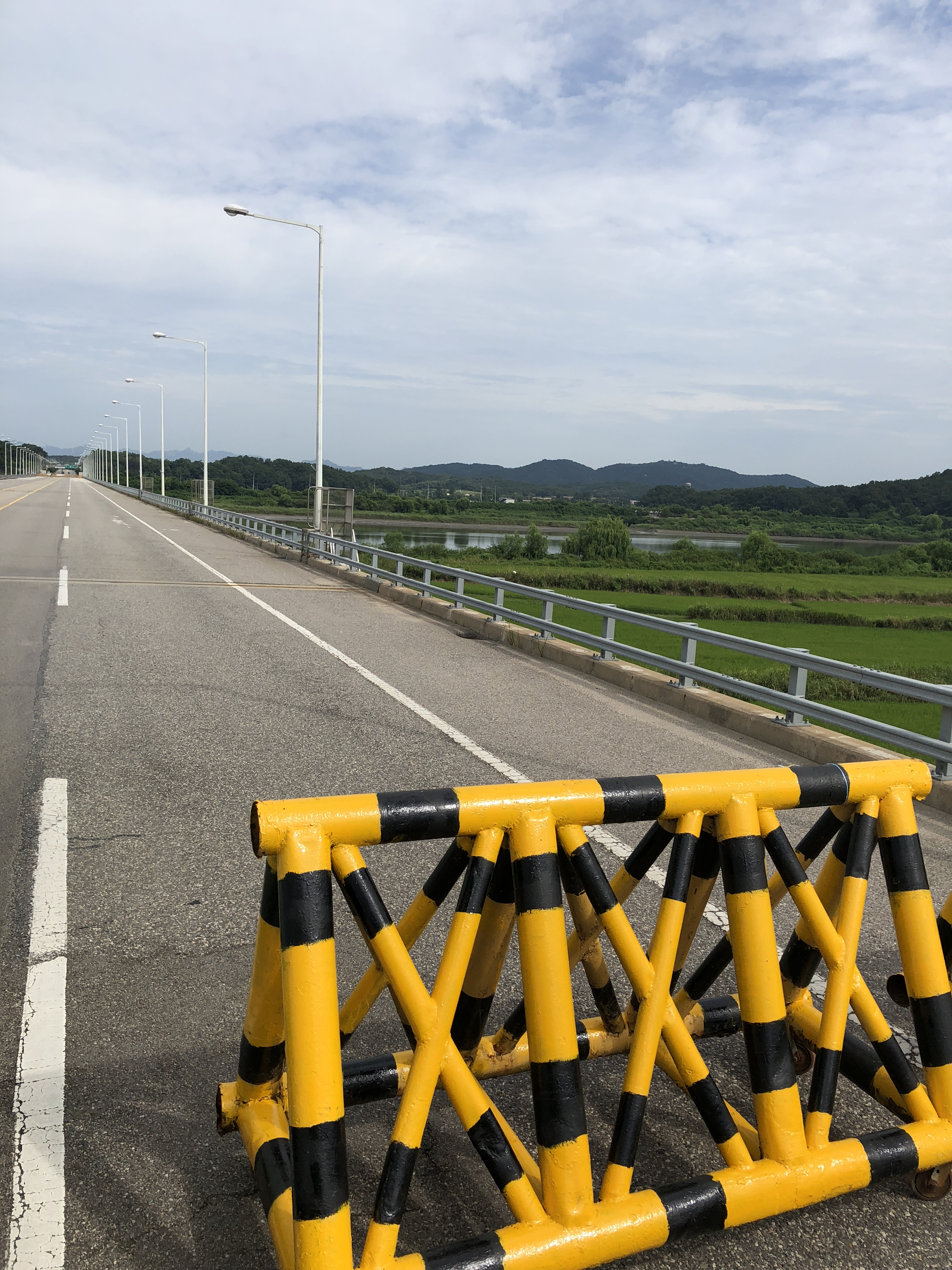 Tong-il Dae-Gyo (Large Bridge of United)